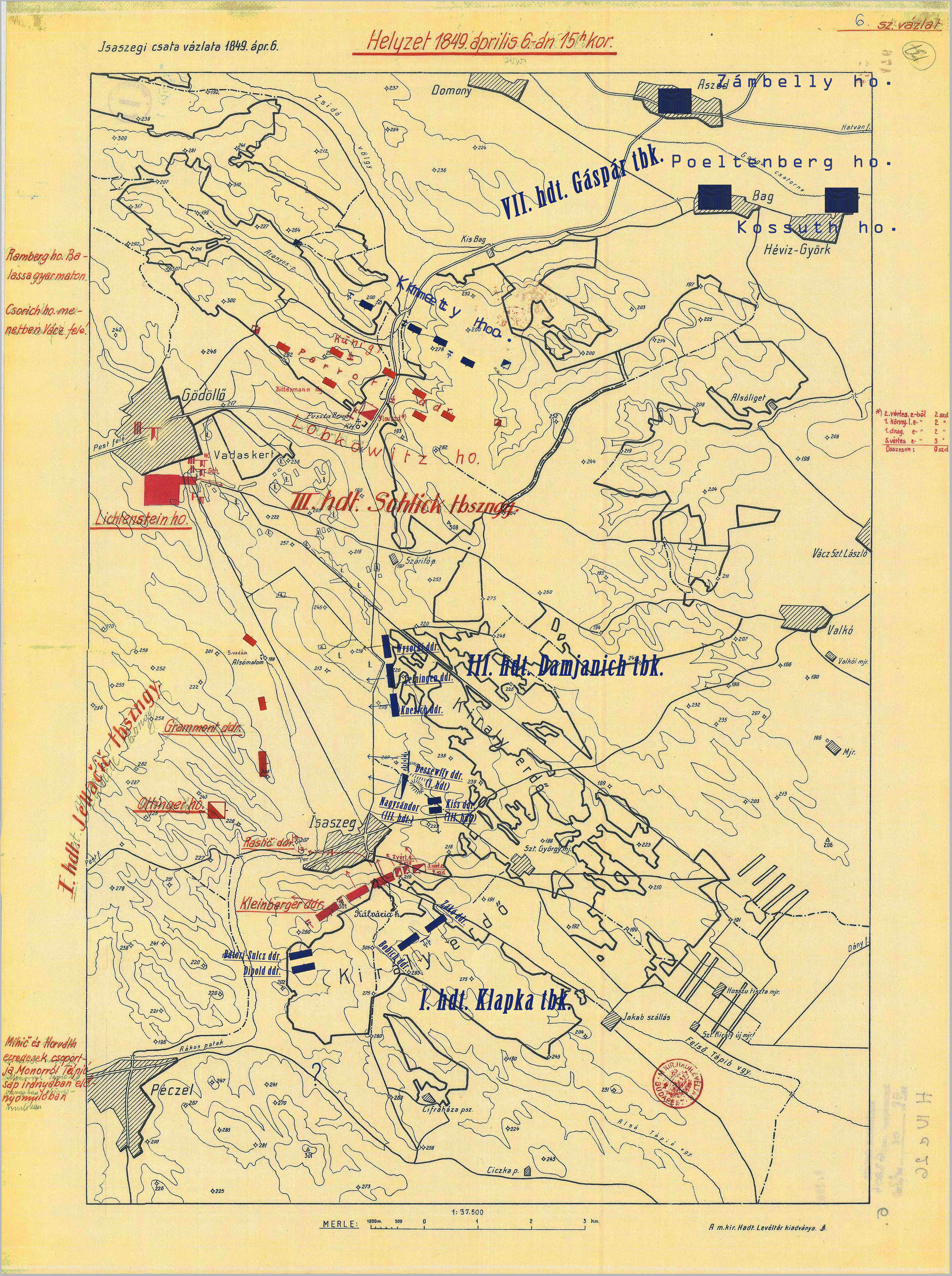 The situation at 15 o'clock. Red - the Austrian troops, Blue - the Hungarian troops.